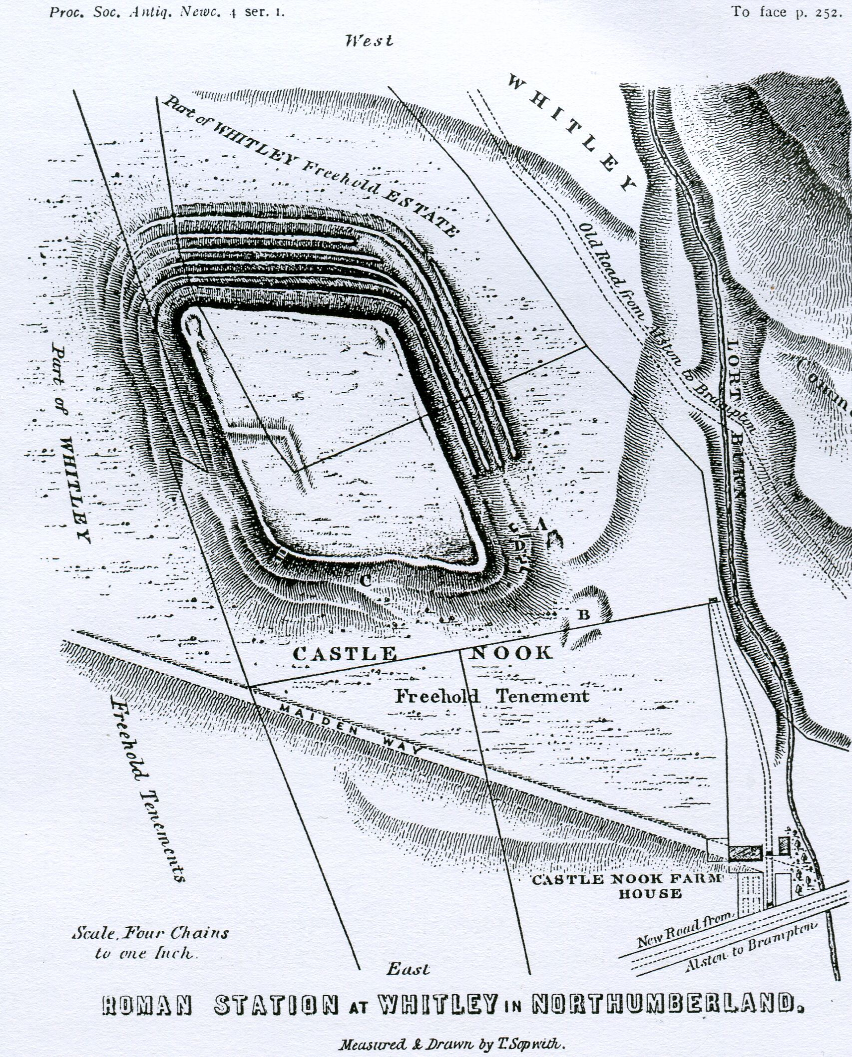 Plan of Whitley Castle (Epiacum Roman Fort), drawn by Thomas Sopwith in The Roman Wall by John Collingwood Bruce, 2nd Edition, 1853.